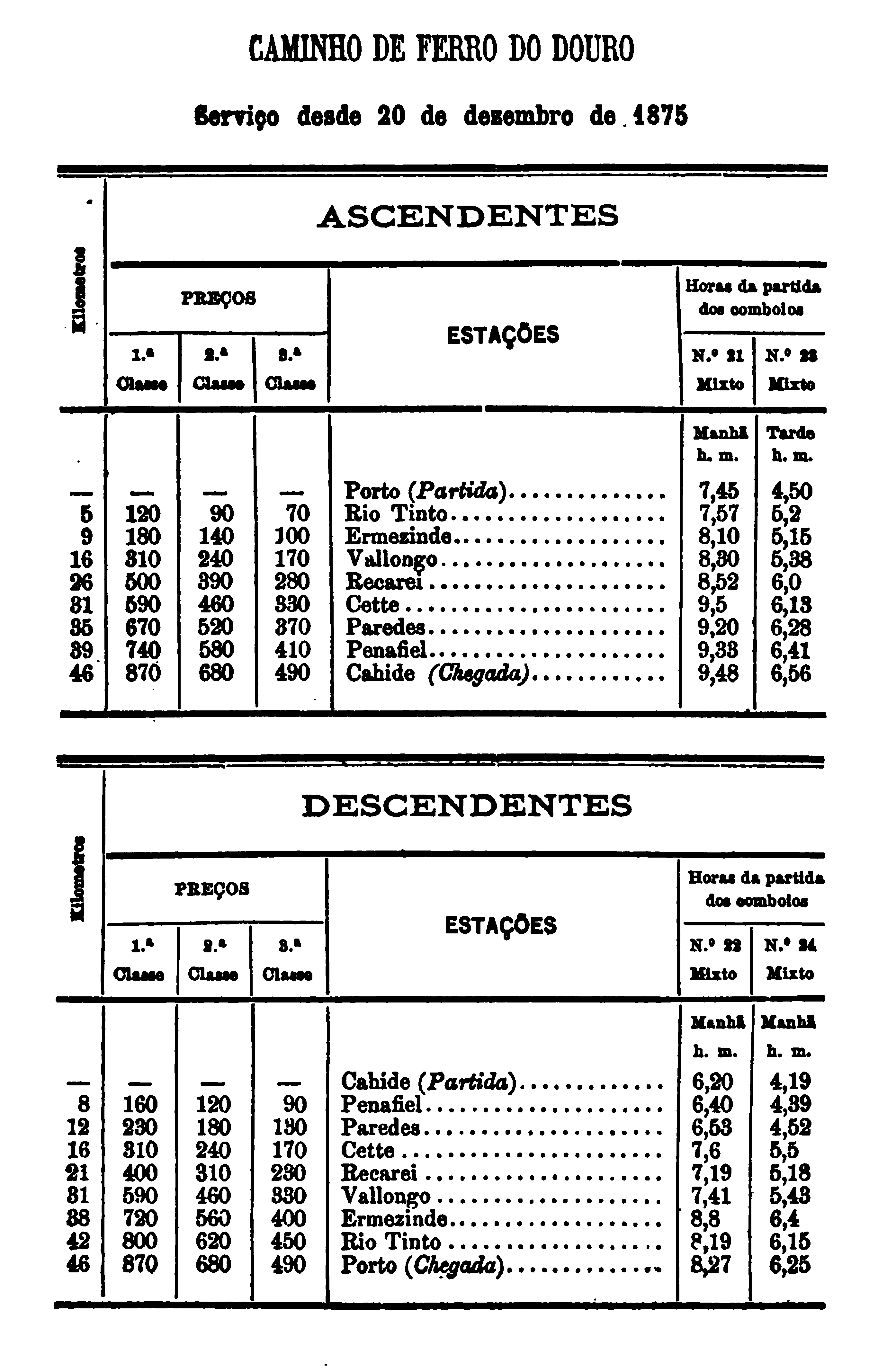 Timetable of the trains between Porto (Campanhã Station) and Caíde, using the Minho Railway until Ermesinde, and the Douro Railway, in Portugal. Both lines were managed by the portuguese government division of the Caminhos de Ferro do Minho e Douro (Minho and Douro Railways). This timetable entered service on the same day of the inauguration of the section from Penafiel to Caíde of the Douro Railway. This image was originally published in the 1876 book "As Praias de Portugal" by author Ramalho Ortigão, scanned by Google from the library of Harvard University, and available in the website.